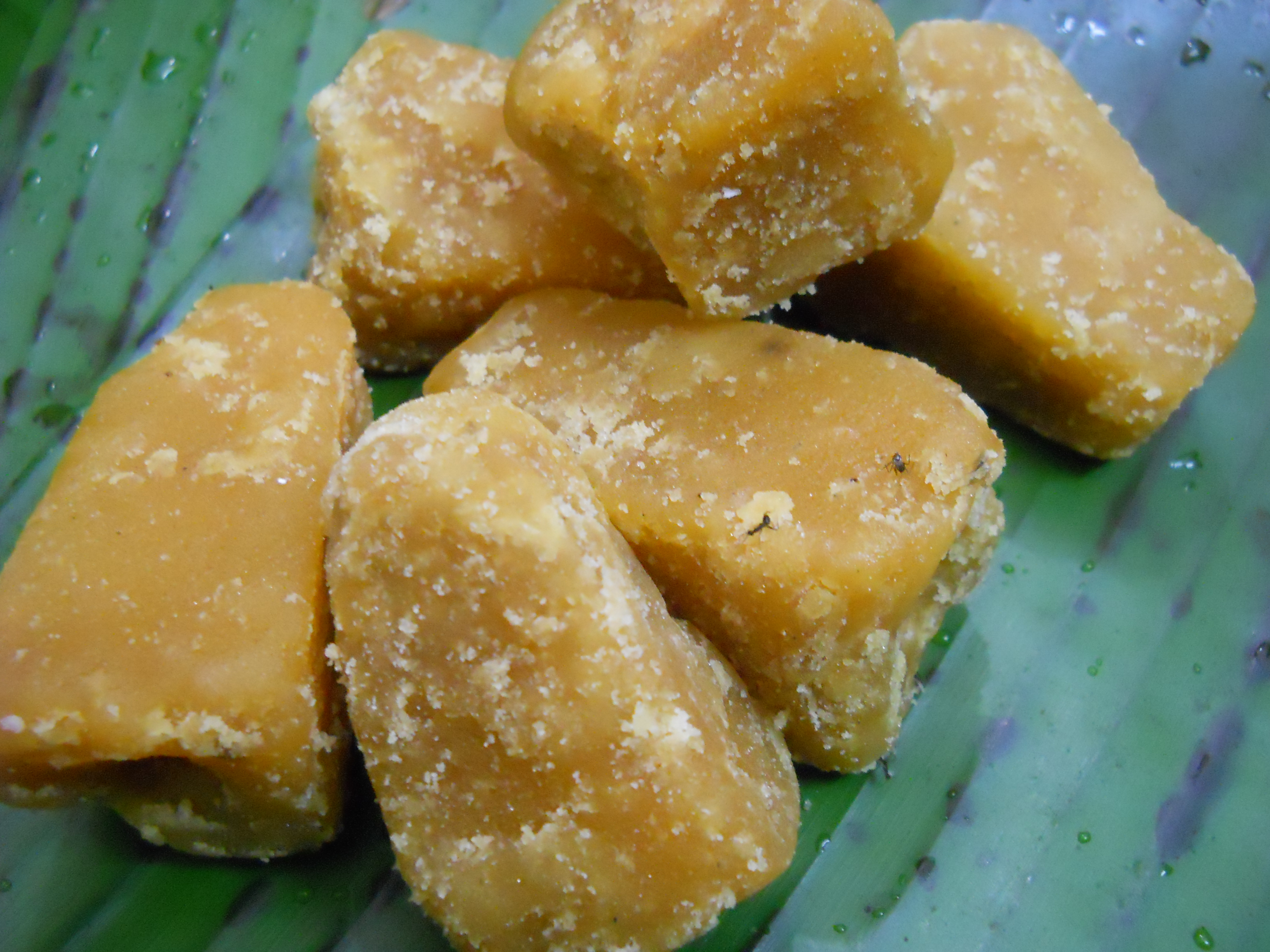 Sharkkara